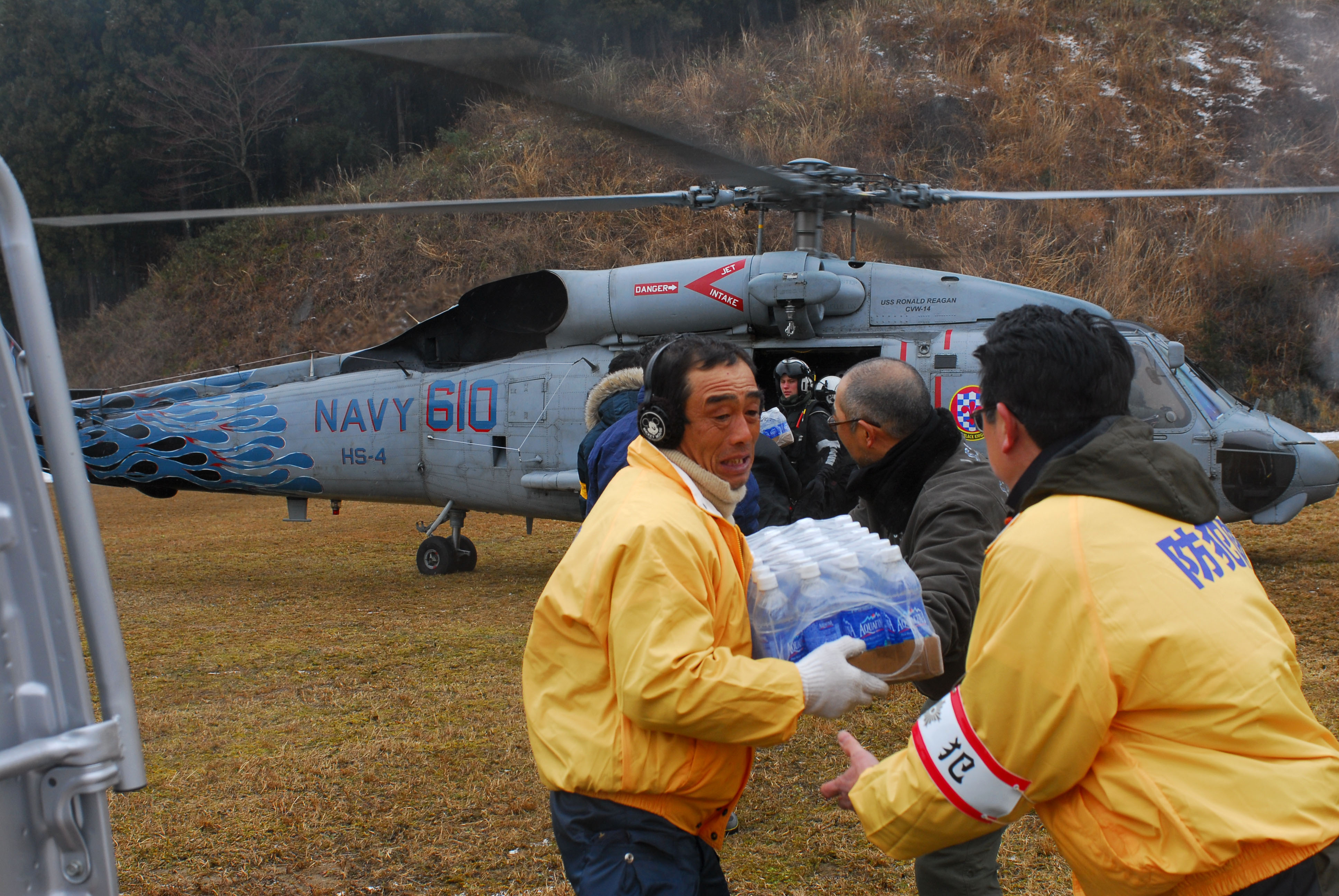 KURO-SOKI, JAPAN (March 16, 2011) Japanese citizens unload food and water from an HH-60H Sea Hawk helicopter assigned to the Black Knights of Helicopter Anti-Submarine Squadron (HS) 4. The squadron is embarked aboard the aircraft carrier USS Ronald Reagan (CVN 76), off the coast of Japan providing humanitarian assistance as directed in support of Operation Tomodachi. (U.S. Navy photo by Mass Communication Specialist 3rd Class Dylan McCord/Released)